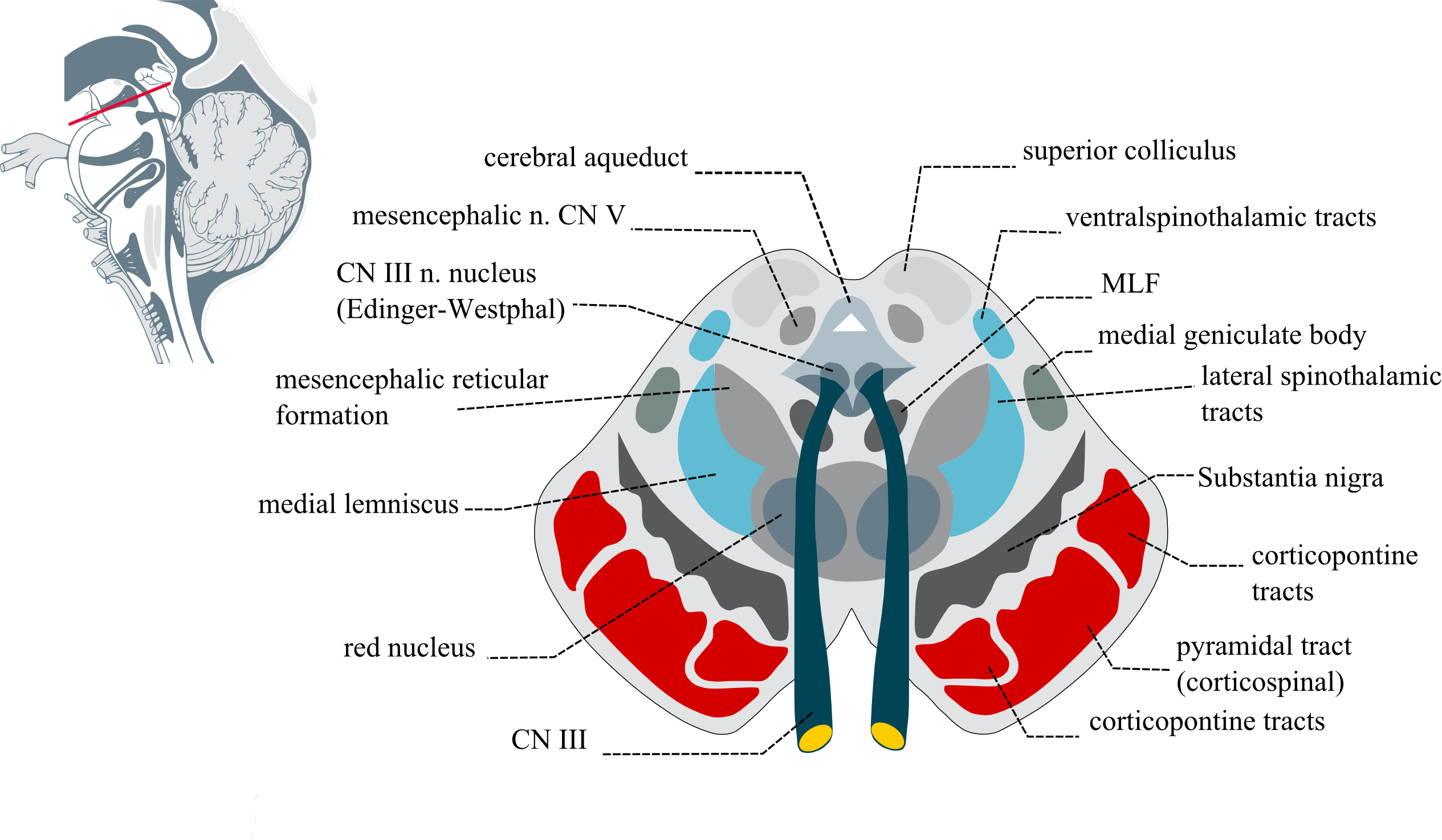 Cross section of mid brain